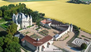 Picture of the Chateau du Rivau from the air